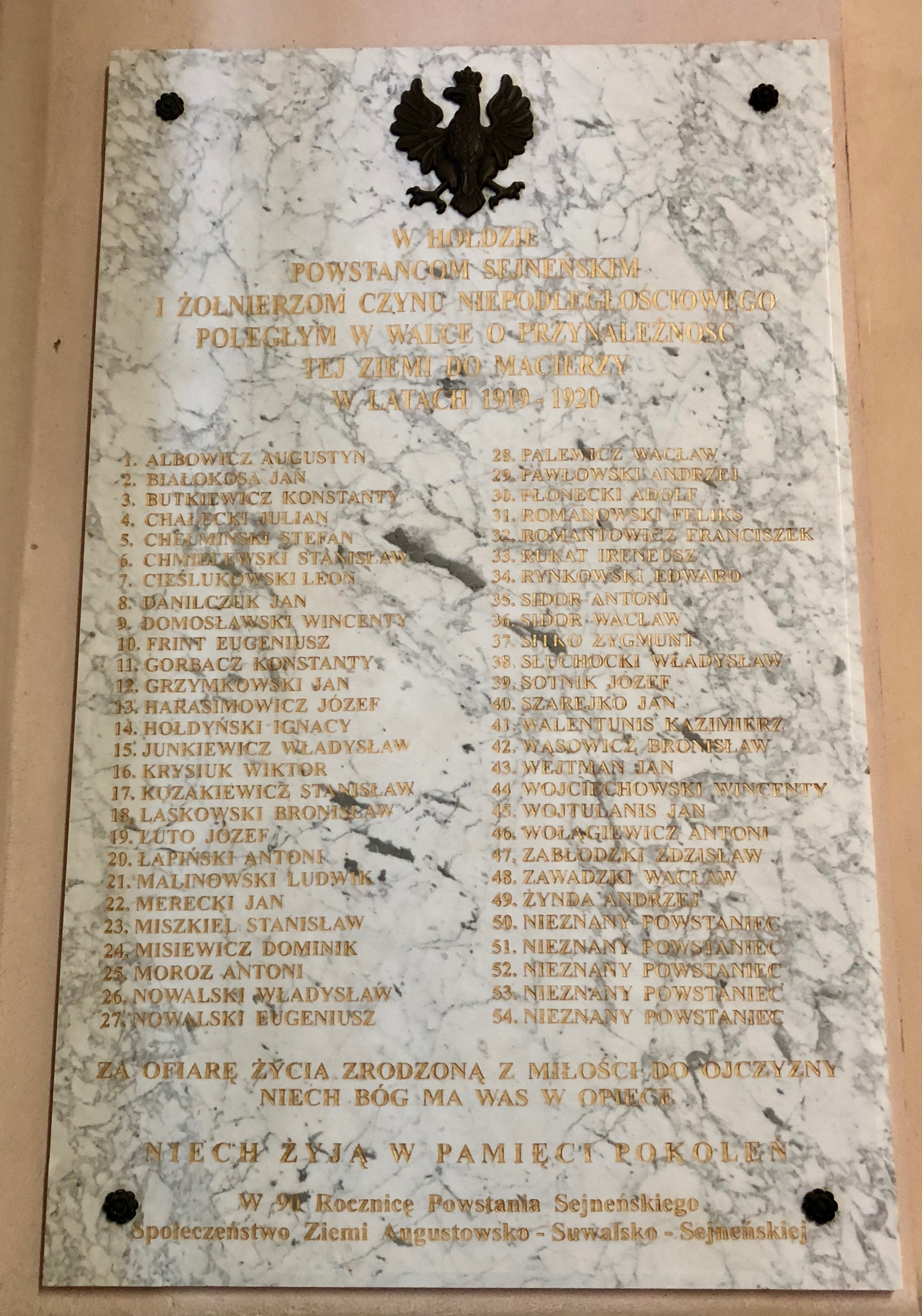 Memorial board in Sejny cathedral for the Sejny rebels of 1919 and the other Polish soldiers and militia who died during the wars in the Sejny region in 1919-1920.